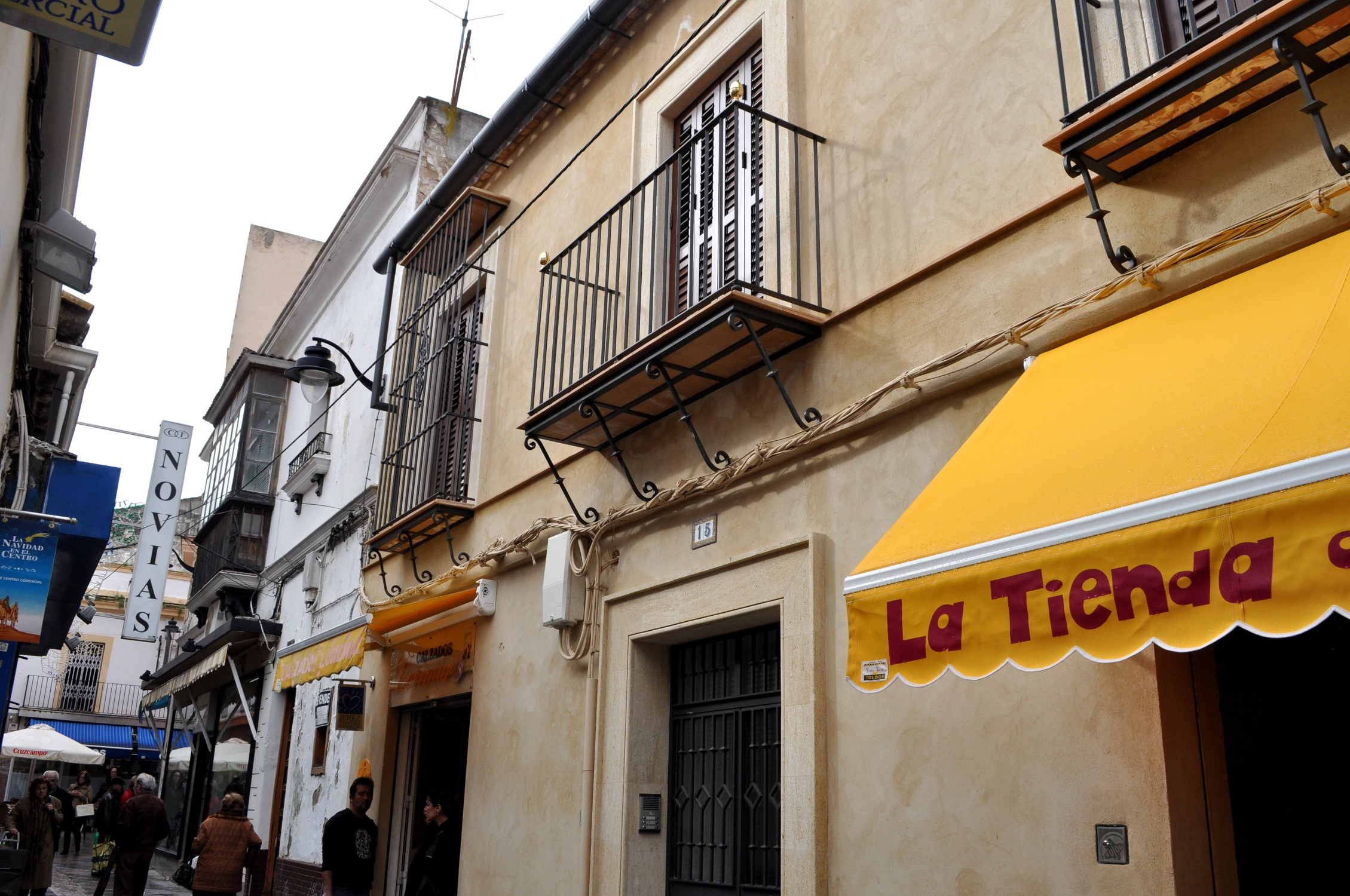 Evora Street., Jerez de la Frontera